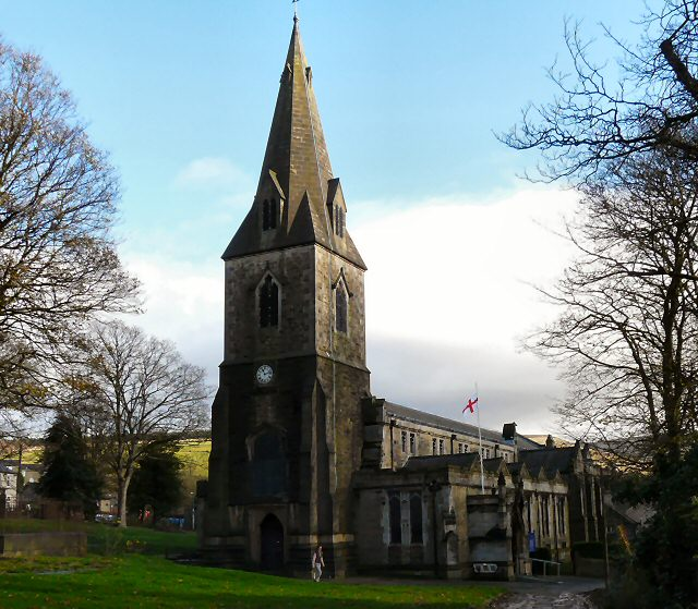 Church of England parish church of All Saints, Old Glossop, Derbyshire, seen from the southeast